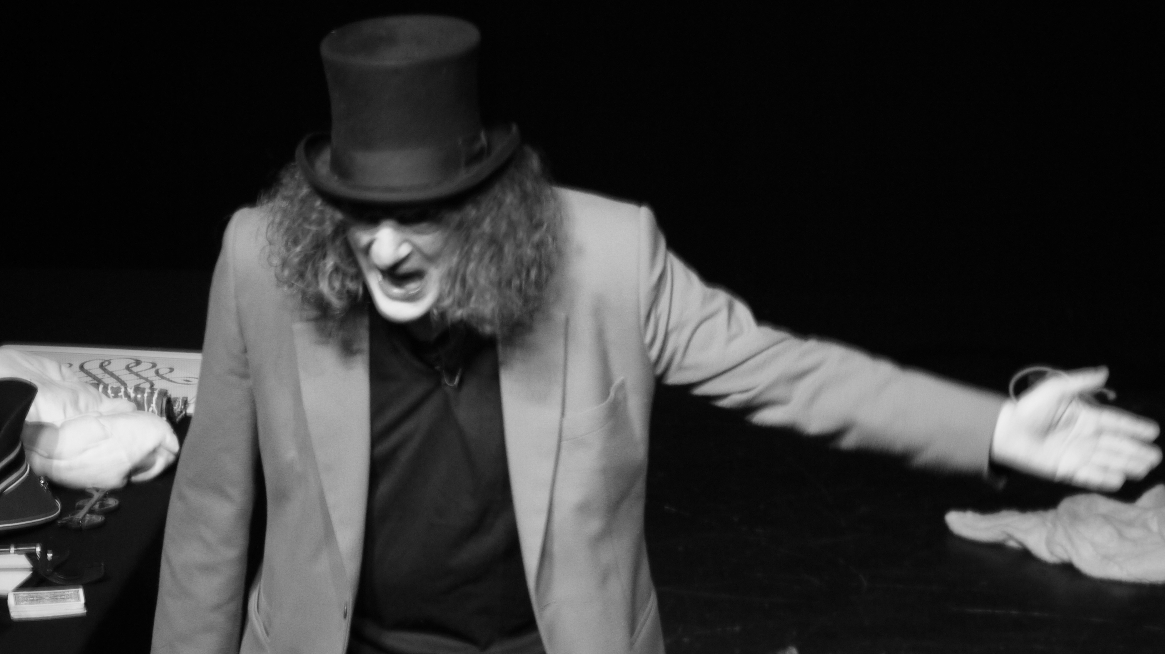 Jerry Sadowitz at the Greenock Arts Guild.